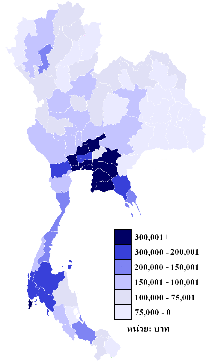 Thai GPP capita year 2017